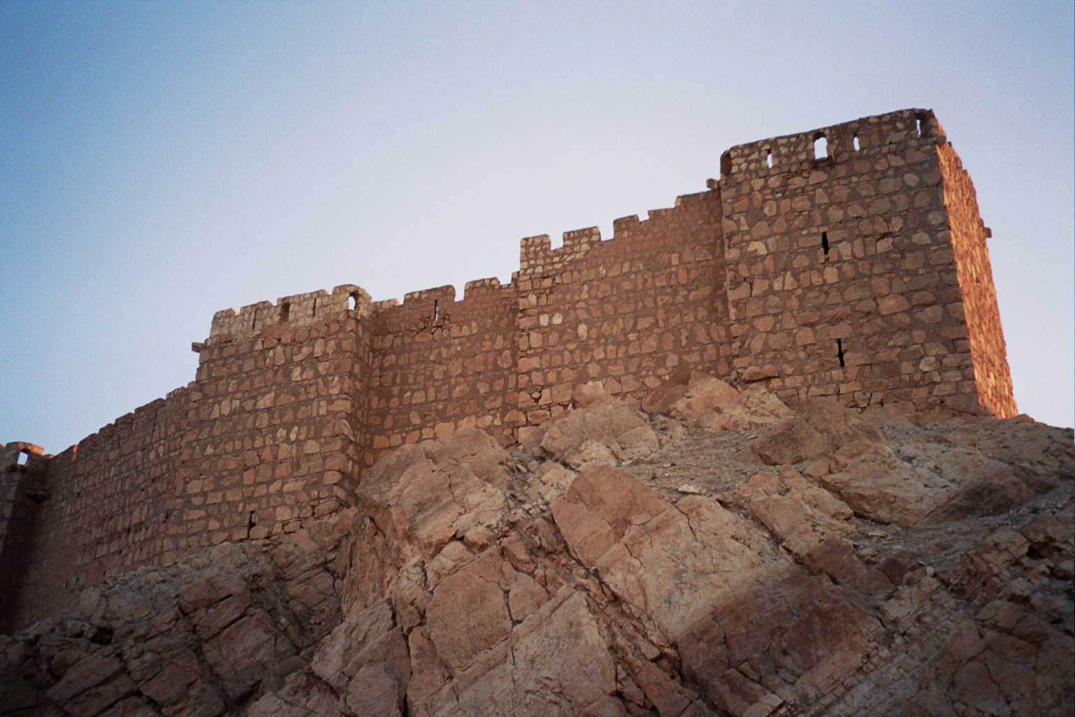 almost at the top!